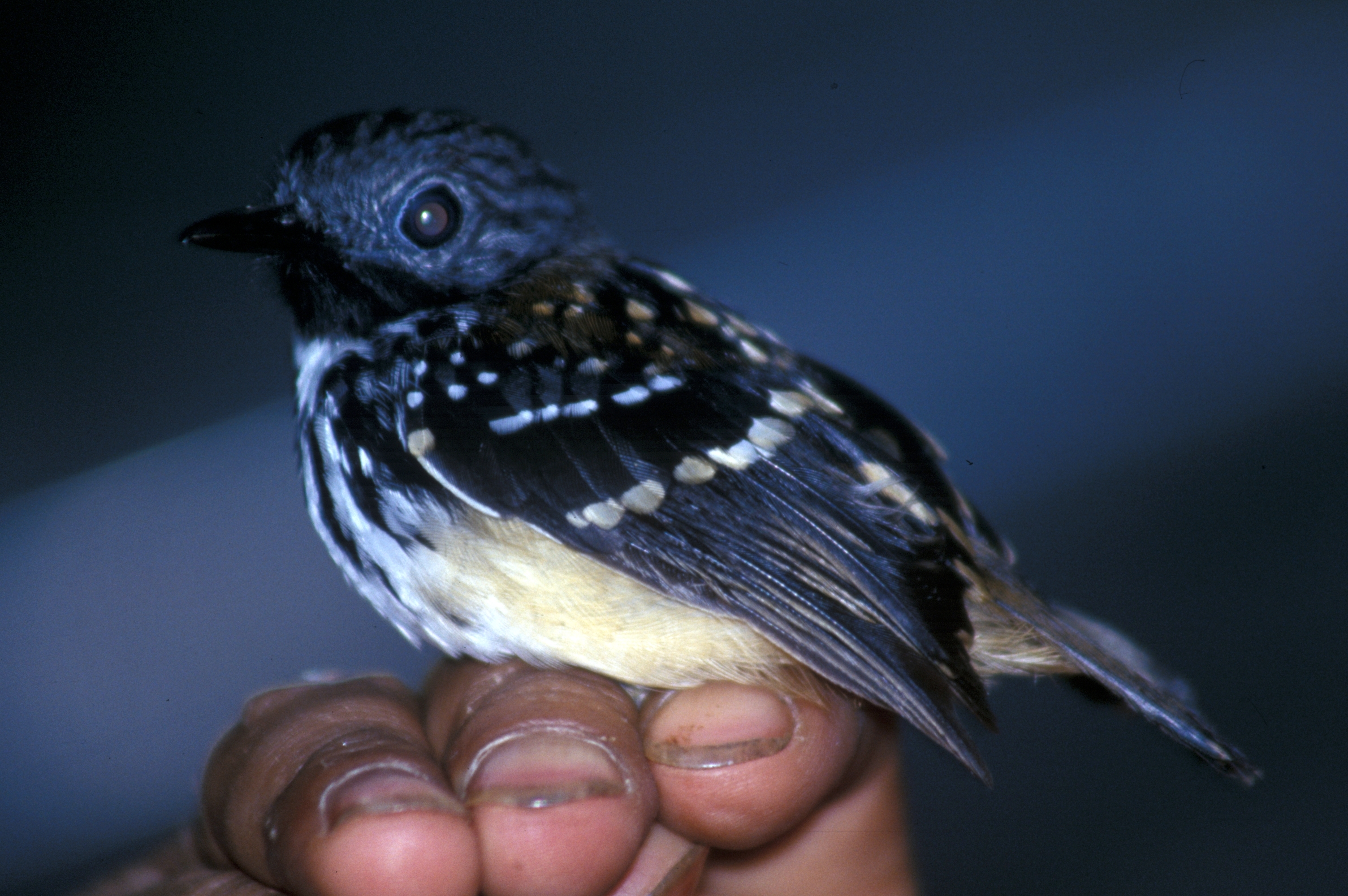 Spot-backed Antbird (Hylophylax naevia) from Ecuador